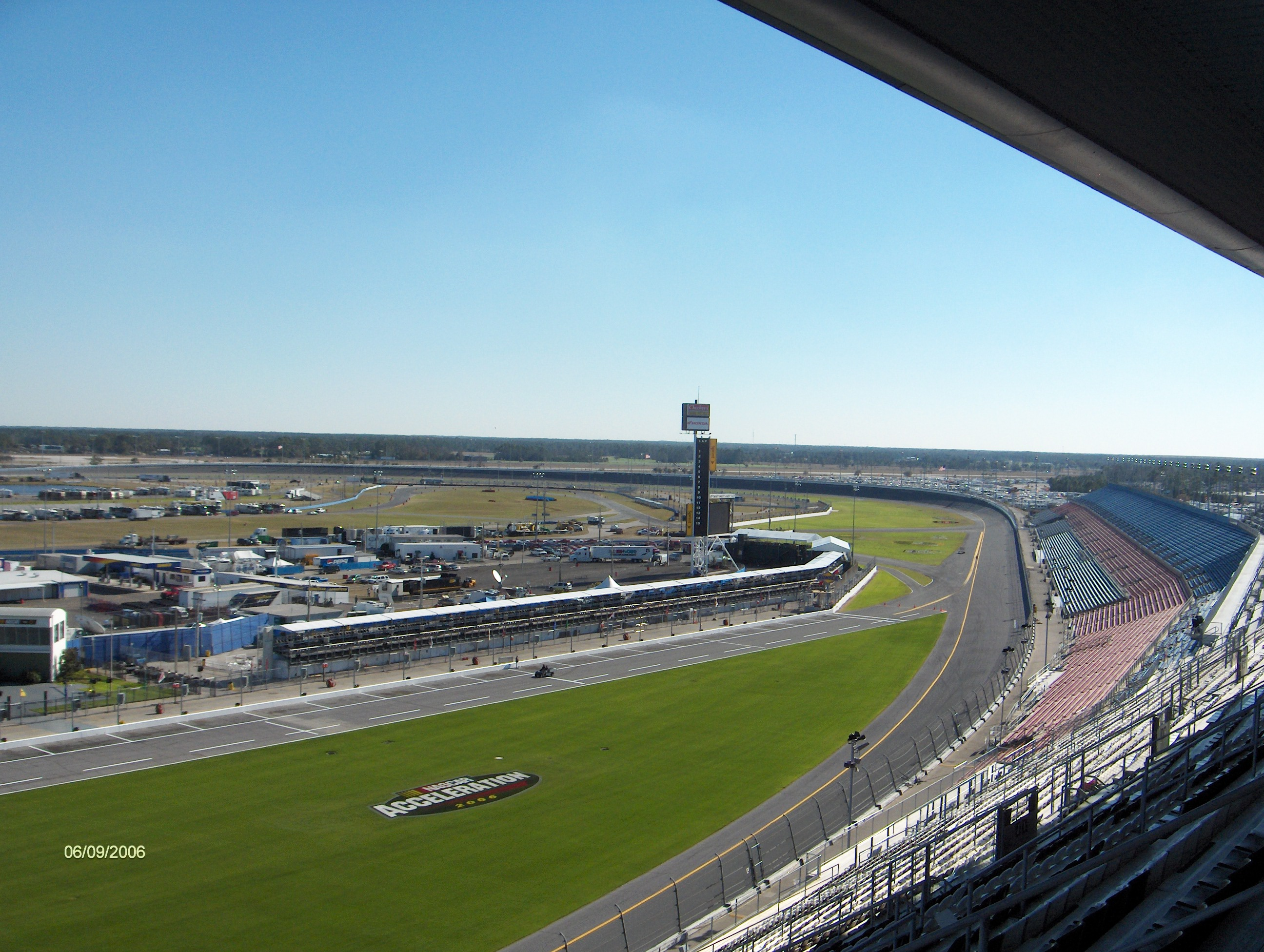 I took this picture during the 2006 Daytona Speedweek